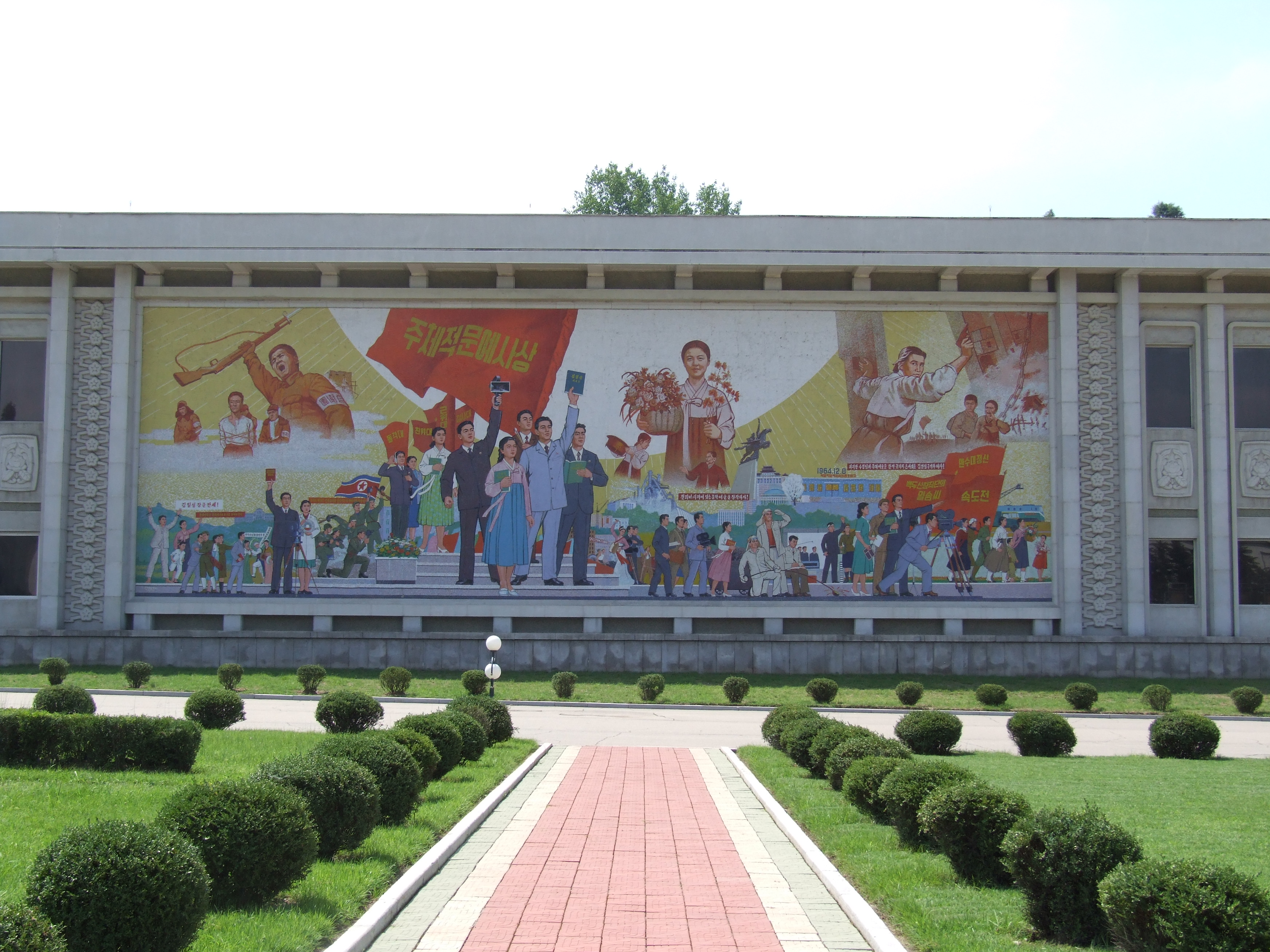 Pyongyang Film Studios